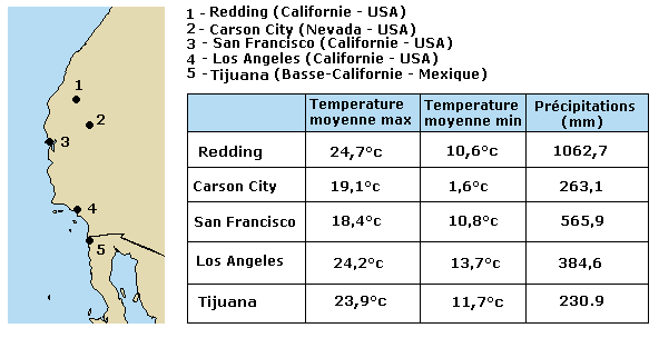 California Floristic Province climate variations